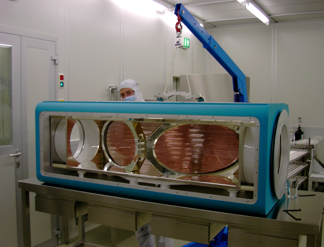 The NOVA A315 amplifier - used as main amplifier in the PHELIX lasersystem at the the GSI Darmstadt, Germany